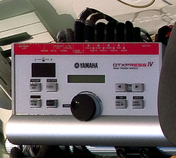 Fanny + Alexander's Home Studio